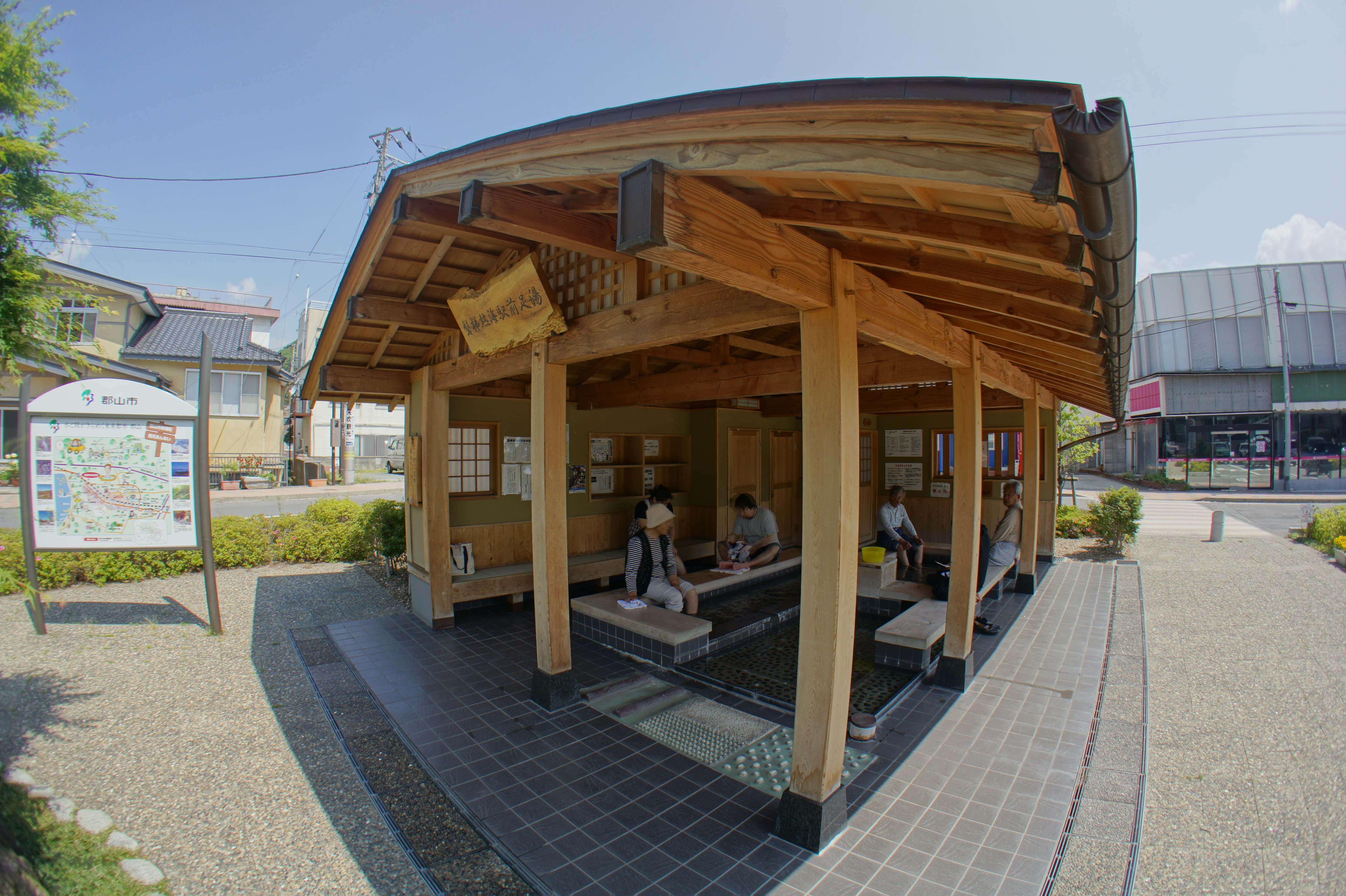 Ashiyu (Foot spa) in front of Bandai-Atami Station